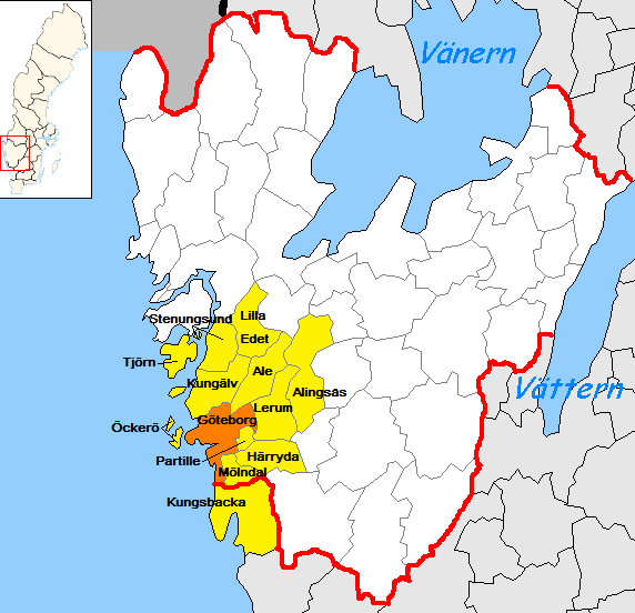 Image of Metropolitan Gothenburg